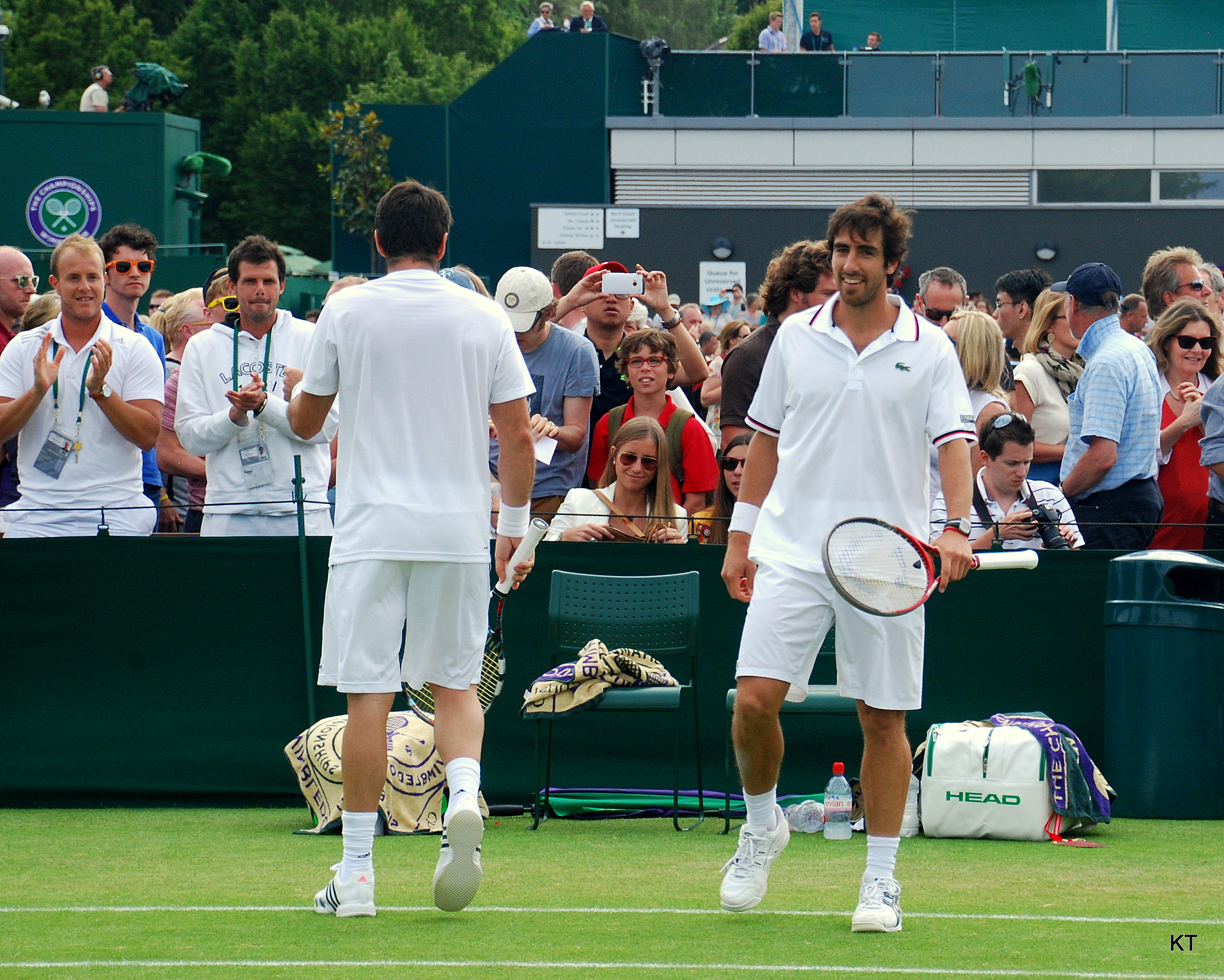 Day 4 of Wimbledon 2014.